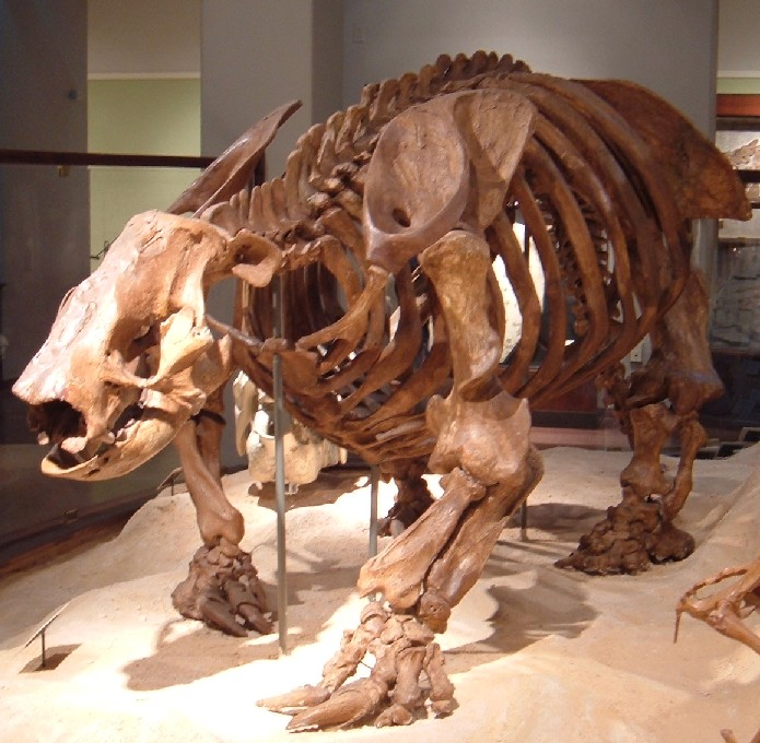 Giant sloth Paramylodon fossil on display at the Texas Memorial Museum, University of Texas at Austin, Austin, Texas, from the contributor's personal photo collection.